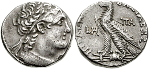 Silver tetradrachma of egyptian pharao Ptolemy IX. Soter II., 109 BC